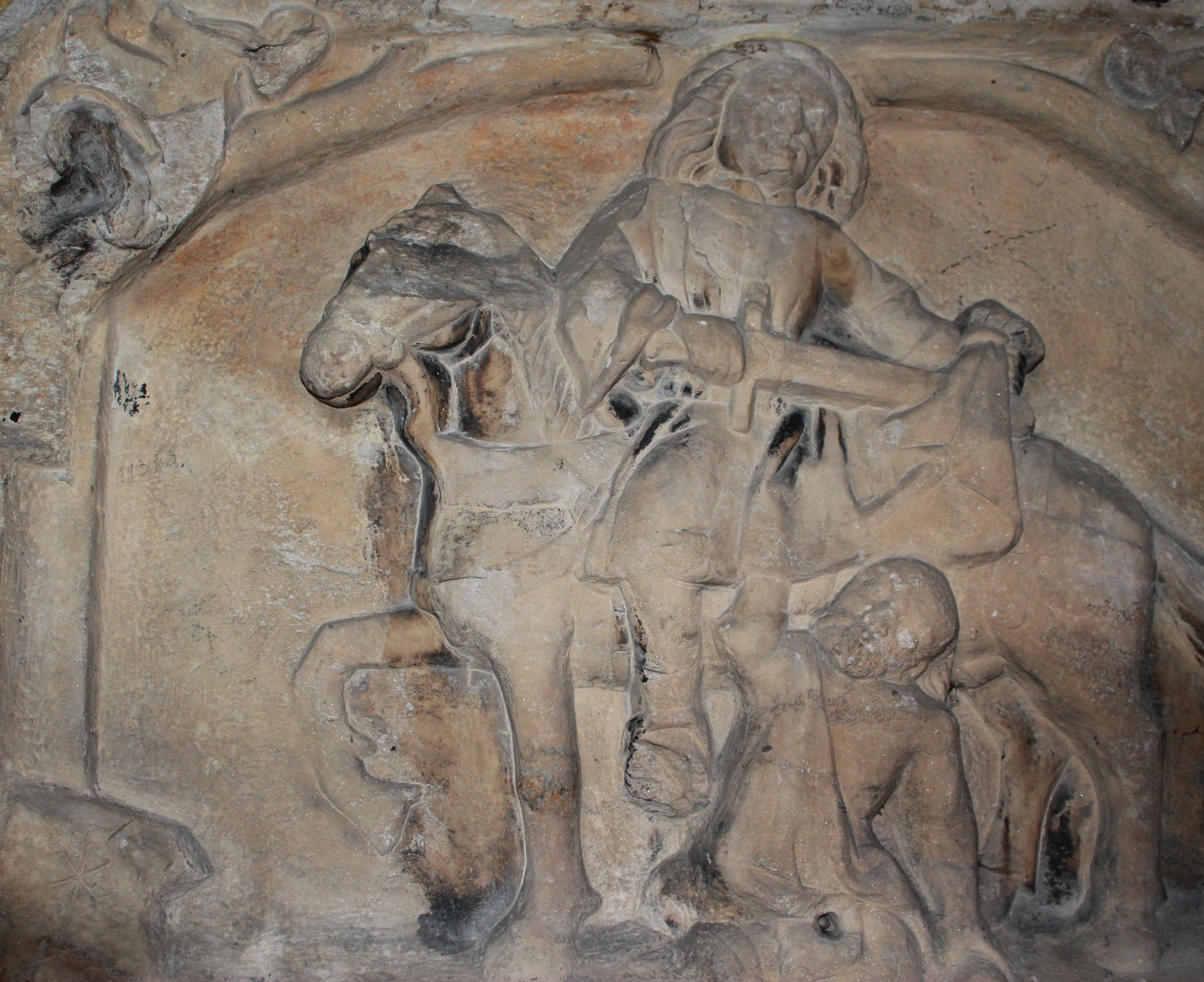 Parish church in Sankt Veit an der Glan - Epitaph